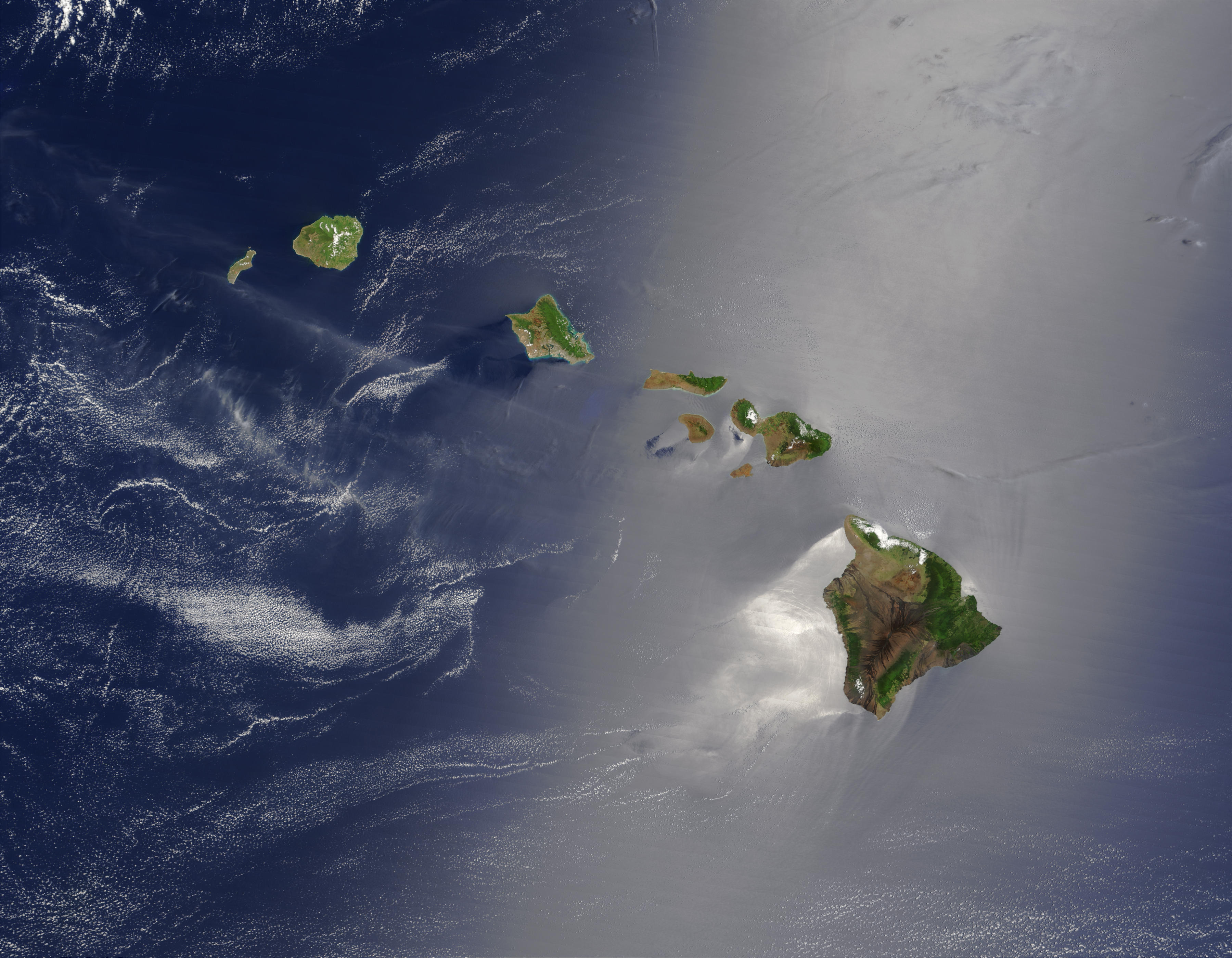 Satellite view of Hawaii archipellago (USA).